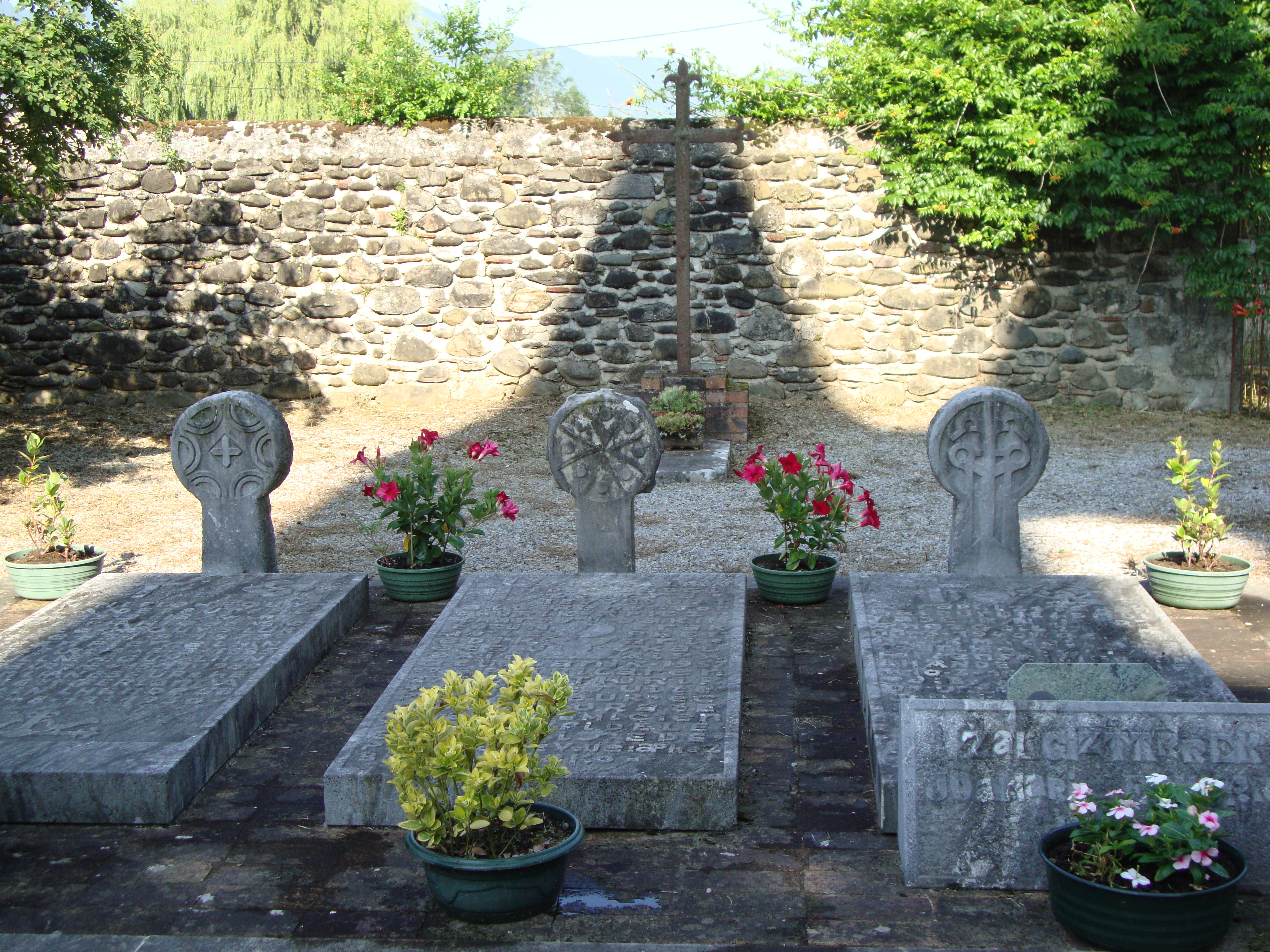 Sauguis (Sauguis-Saint-Étienne, Pyr-Atl, Fr) stèles basques dans l'ombre du clocher trinitaire.